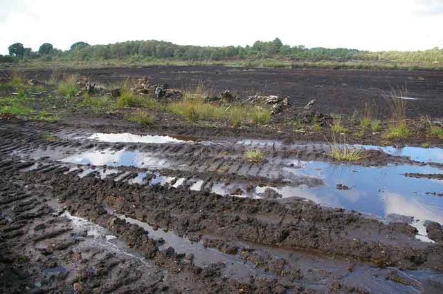 Lindow Pete's final resting place - prior to British Museum. This is the spot (foreground)where iron age man "Lindow Pete" was found. It is actually in Mobberley so maybe he should be Mobberley Man?